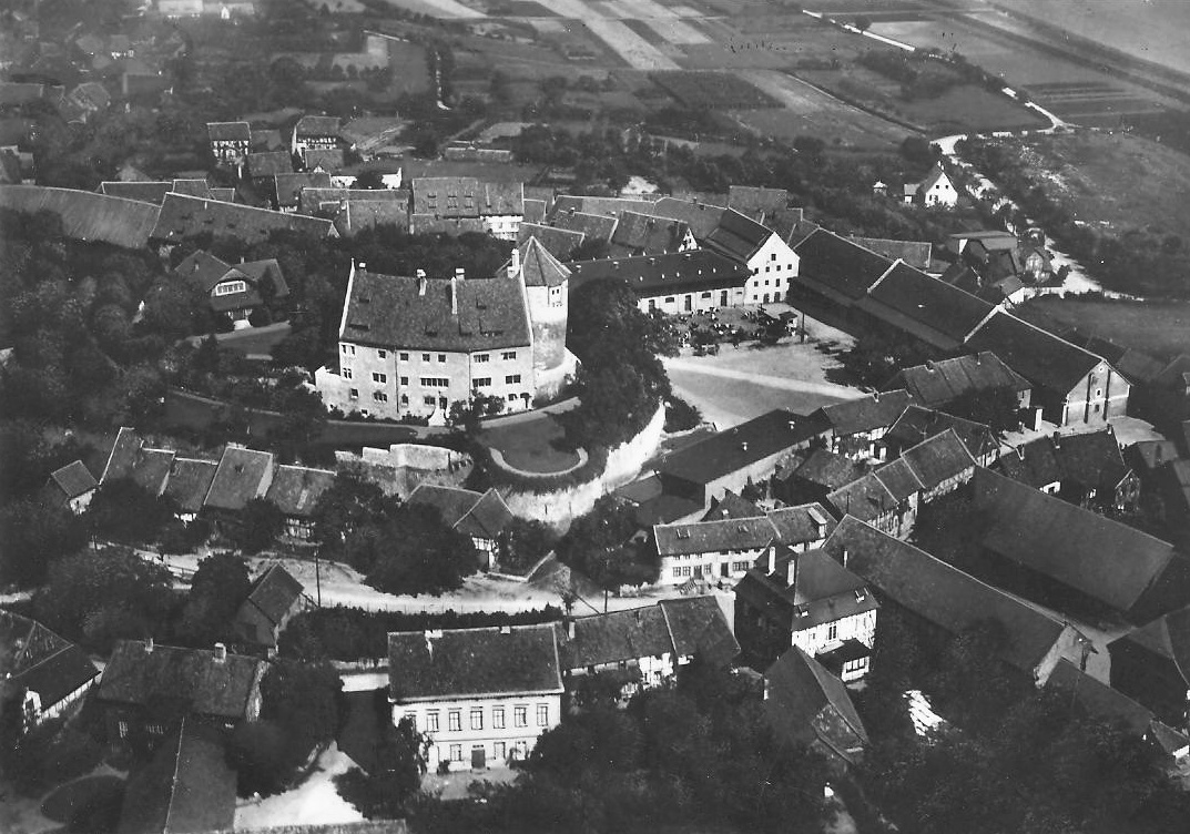 Castle in Hornburg in Lower Saxony, Germany